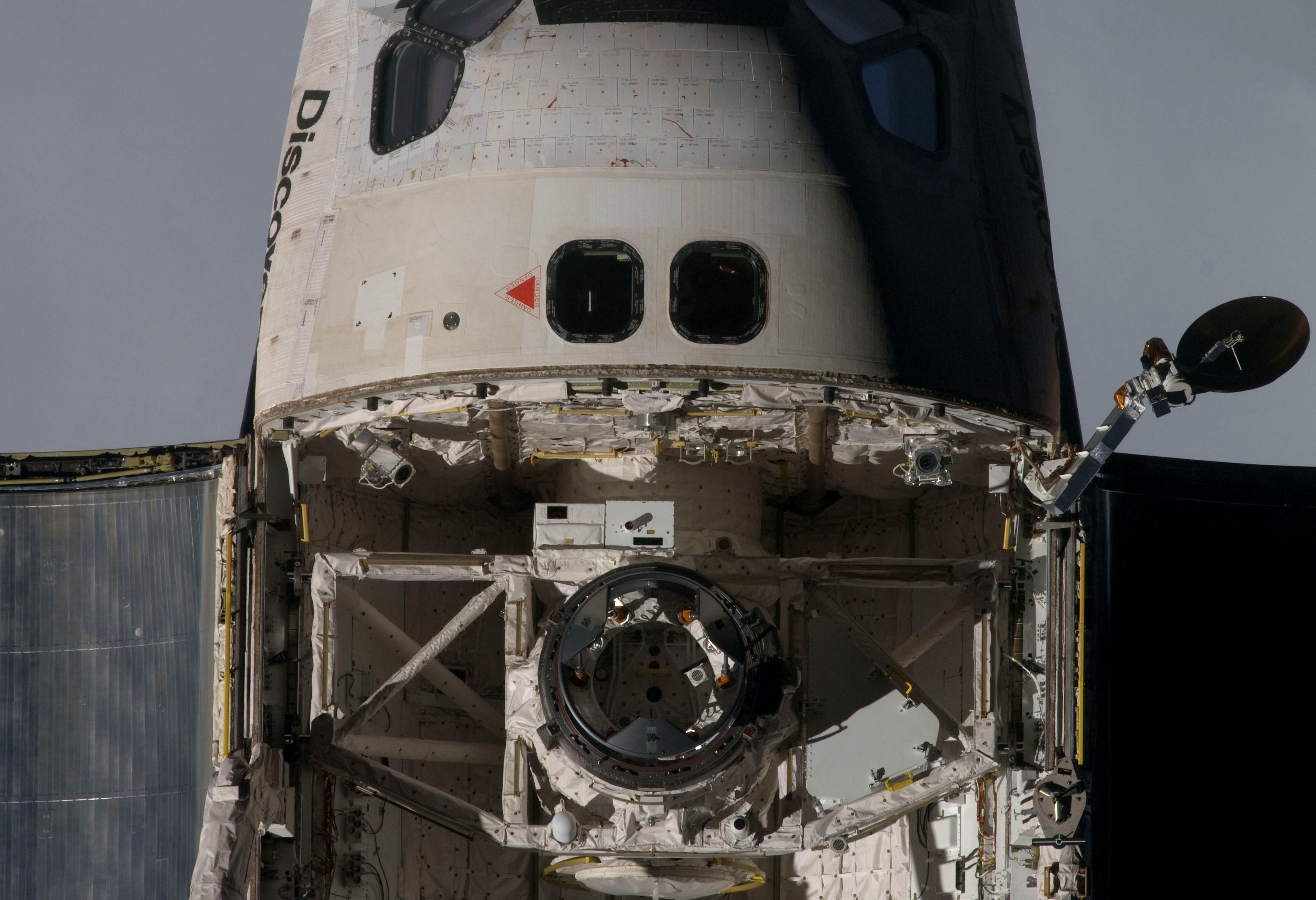 Image of Space Shuttle Discovery approaching the International Space Station during STS-128. The TriDAR 3D navigation system is the box visible just above the docking interface. This is one of a series of 400mm survey digital still photographs of the Space Shuttle Discovery as it performed a full 360-degree backflip. The series of photos were made by the Expedition 20 crew onboard the International Space Station as the two spacecraft drew near to each other on STS-128's third flight day.